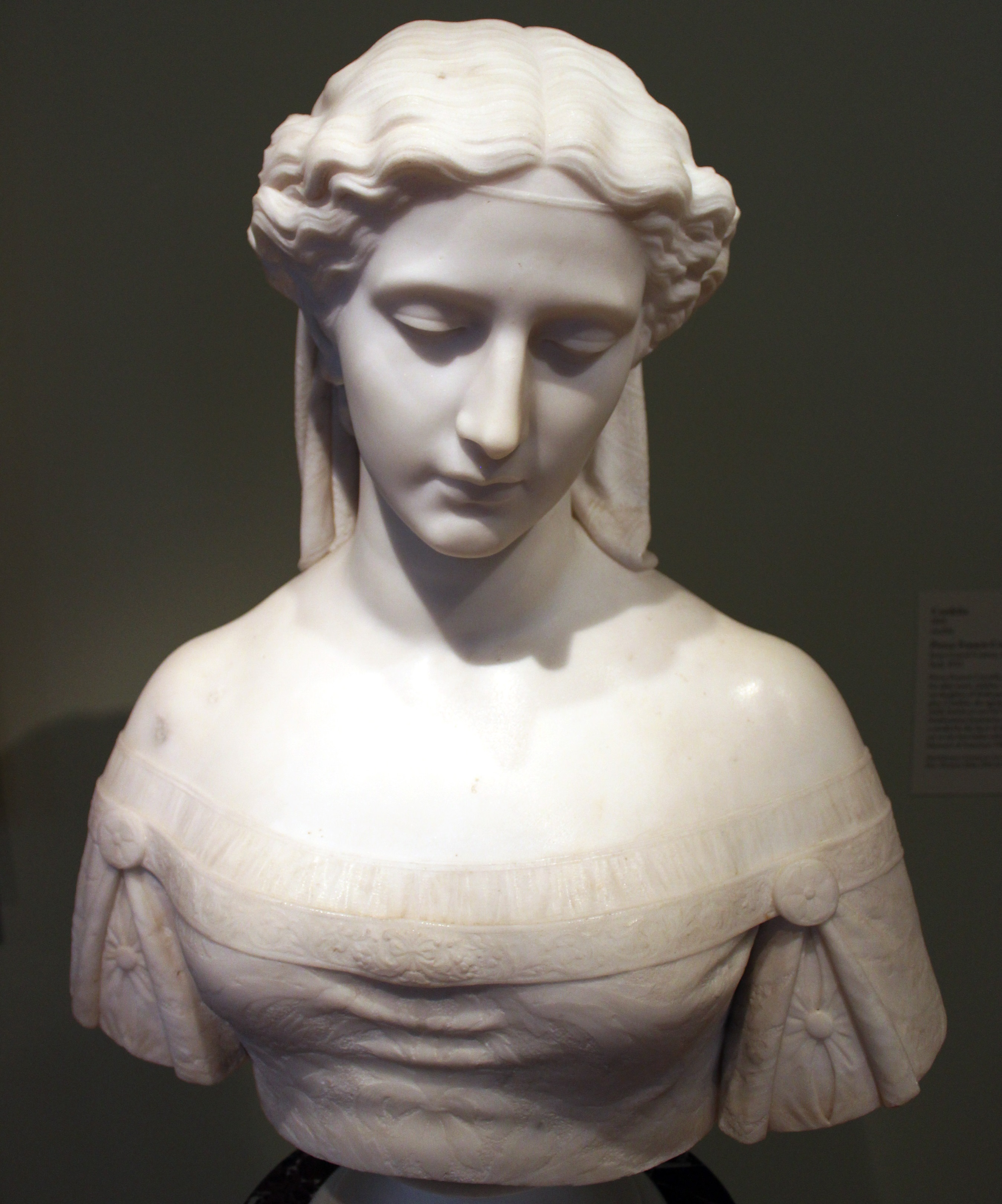 Bust of Queen Cordelia